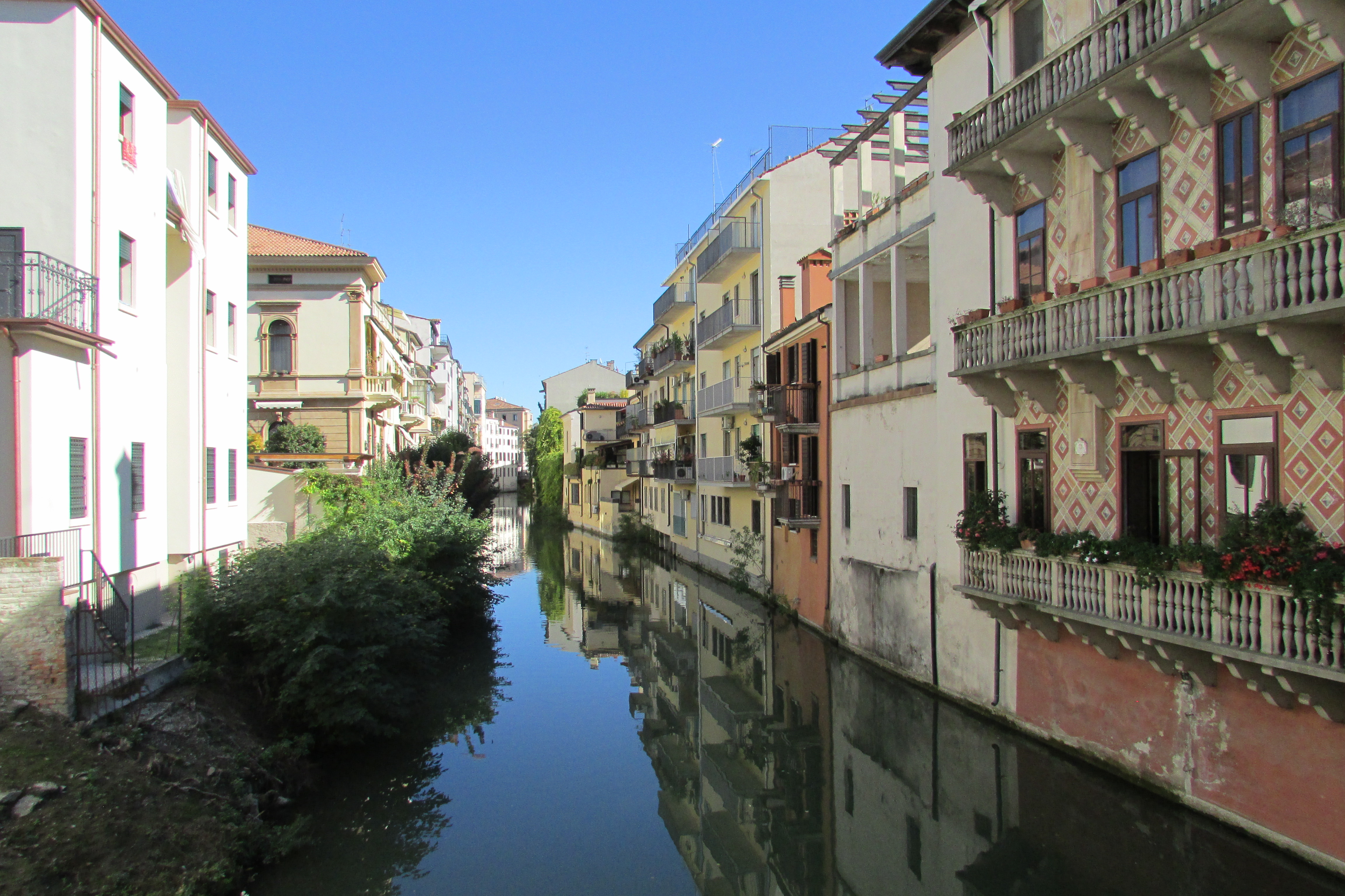 Riviera Tiso da Camposampiero along side the Canale Piovego in Padua, Italy.